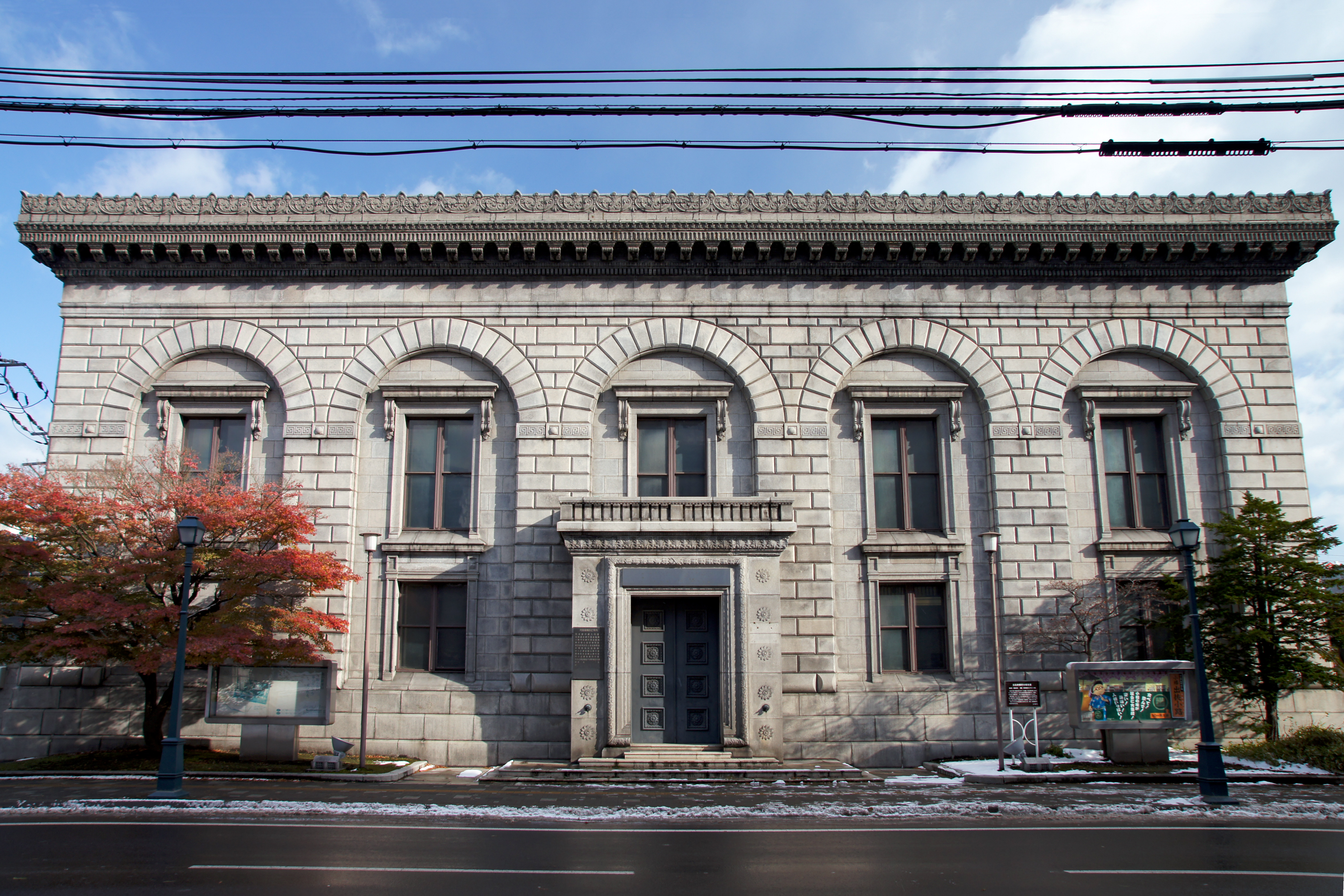 Former Mitsui Bank Otaru Branch in Otaru, Hokkaido prefecture, Japan